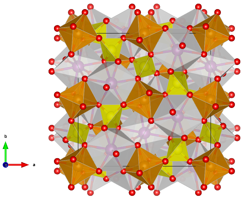 Crystal structure of calderite, Mn3Fe2(SiO4)3, Ia3d, projected onto the (a,b) plane. Red: iron atoms, purple: manganese atoms, yellow: silicon atoms, blue: oxygen atoms. Data source: G.A. Novak and G.V. Gibbs (1971) "The crystal chemistry of the silicate garnets", American Mineralogist 56(5-6): 791-825.